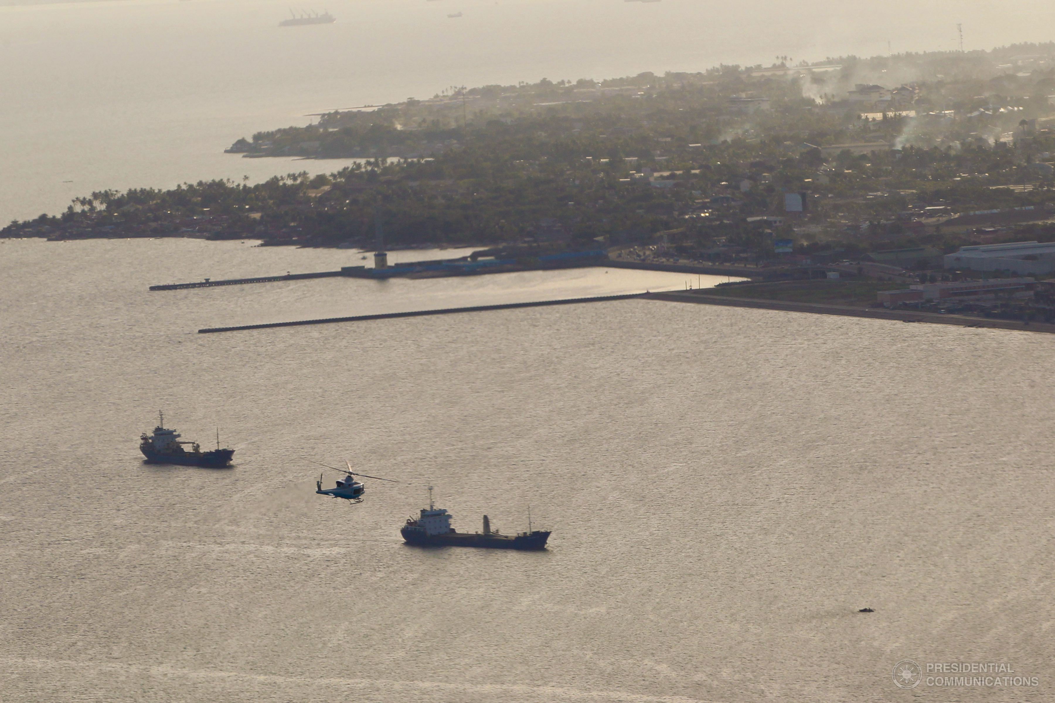 Aerial photo shows the chopper carrying President Rodrigo Roa Duterte as it hovers over the site from where the Cebu-Cordova Link Expressway (CCLEX) will be constructed. The President also attended the groundbreaking ceremony of CCLEX at the Virlo Public Market in Cebu on March 2, 2017. KING RODRIGUEZ/Presidential Photo